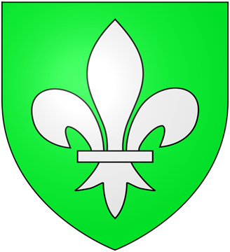 Arms of Fowke baronets of Lowesby: Vert, a fleur-de-lys argent (Debrett's Peerage, 1967, p.315)